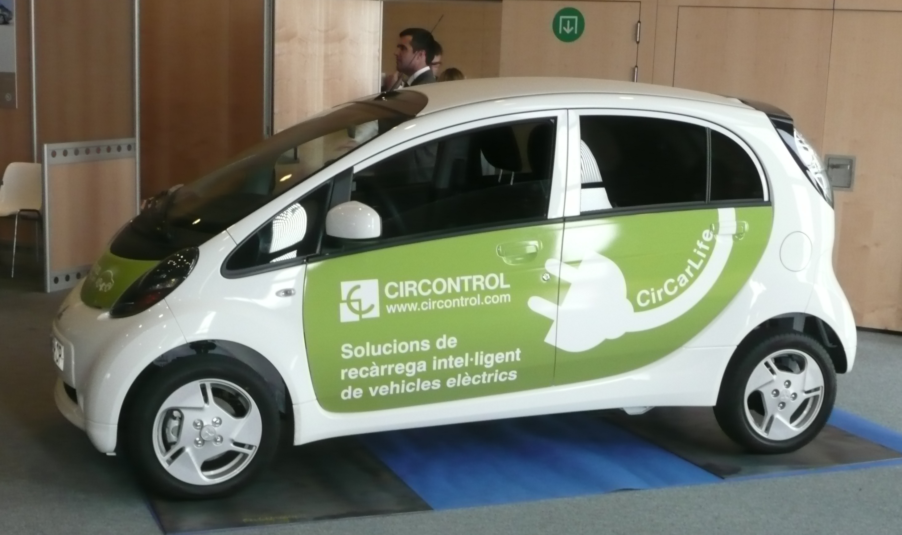 Mitsubishi i-MiEV in Spain